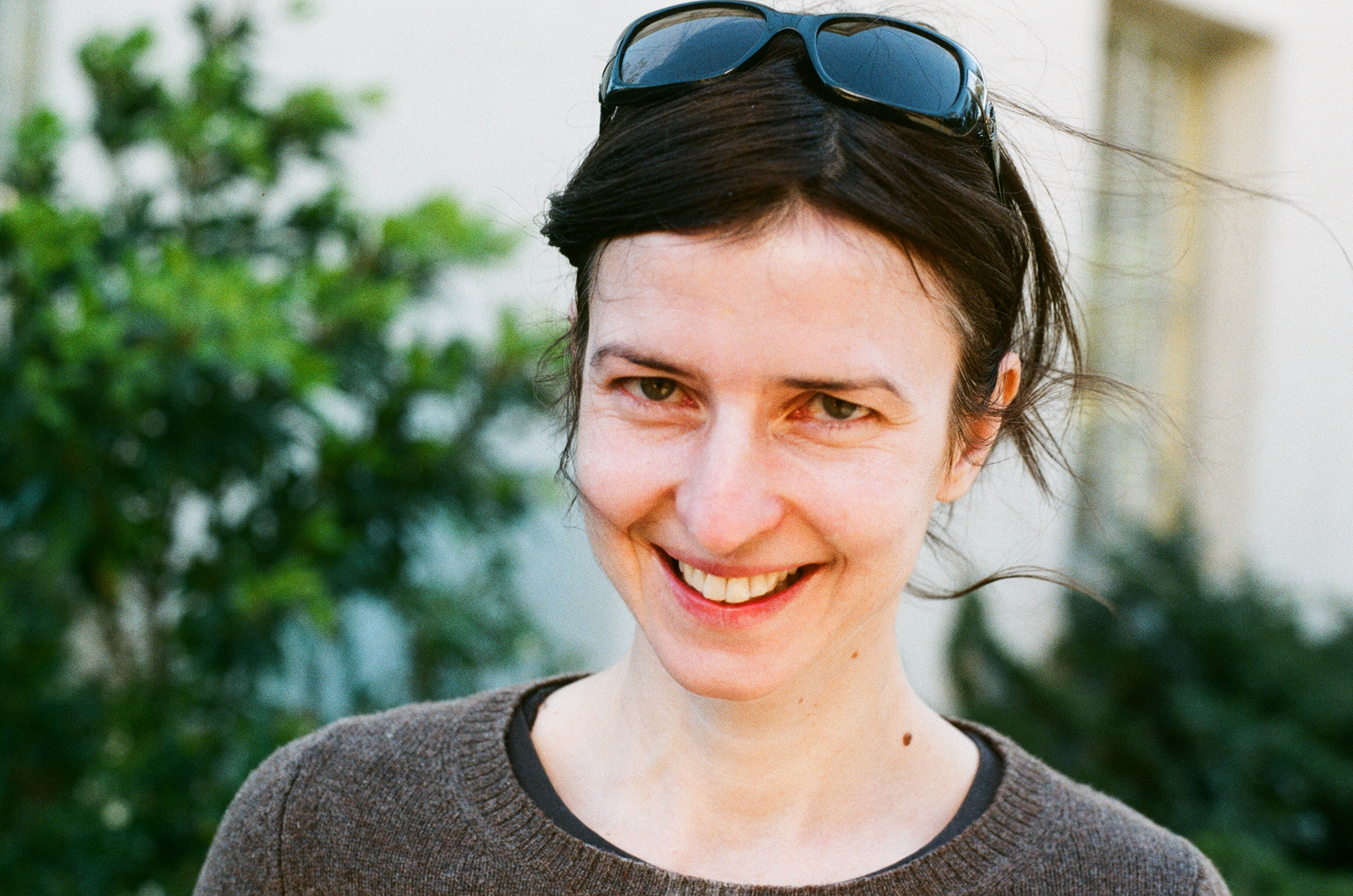 Picture of Mina Aganagic